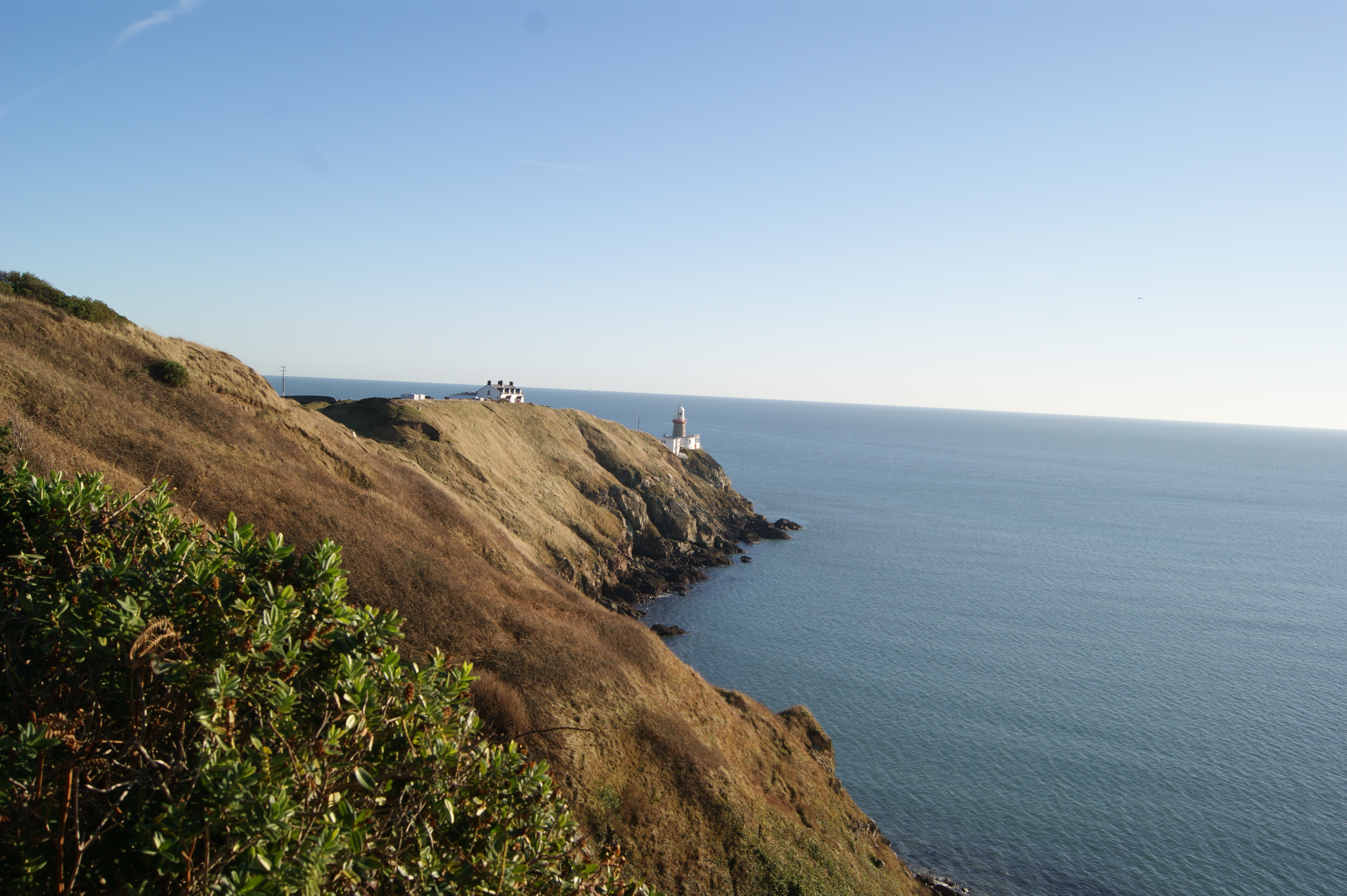 Howth Head: Baily Lighthouse